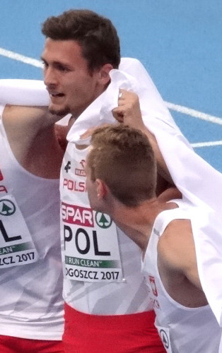 2017 European Athletics U23 Championships, 4x400m relay men final